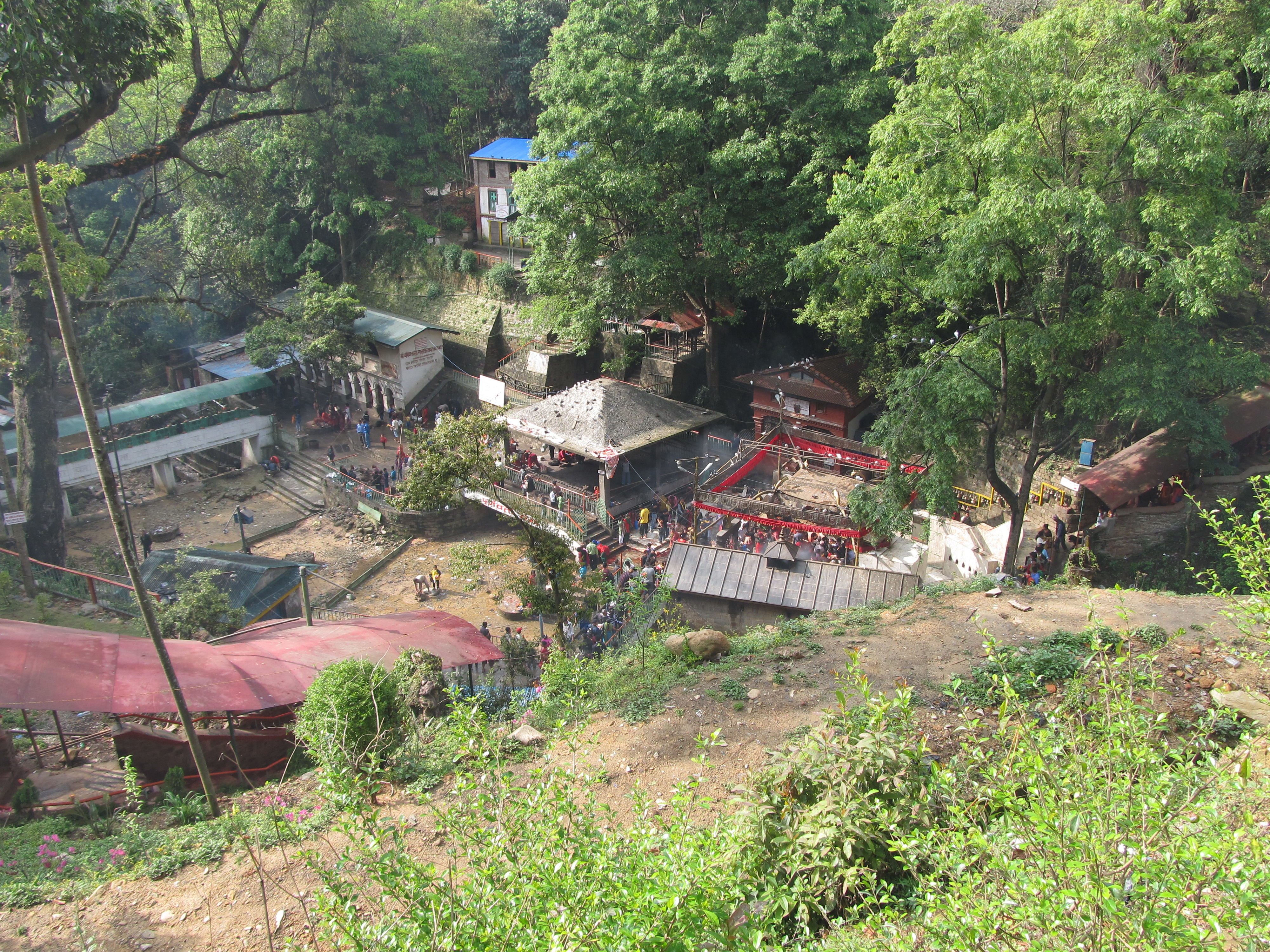 Nepali New Year's Eve in Dakshinkali, Pharping